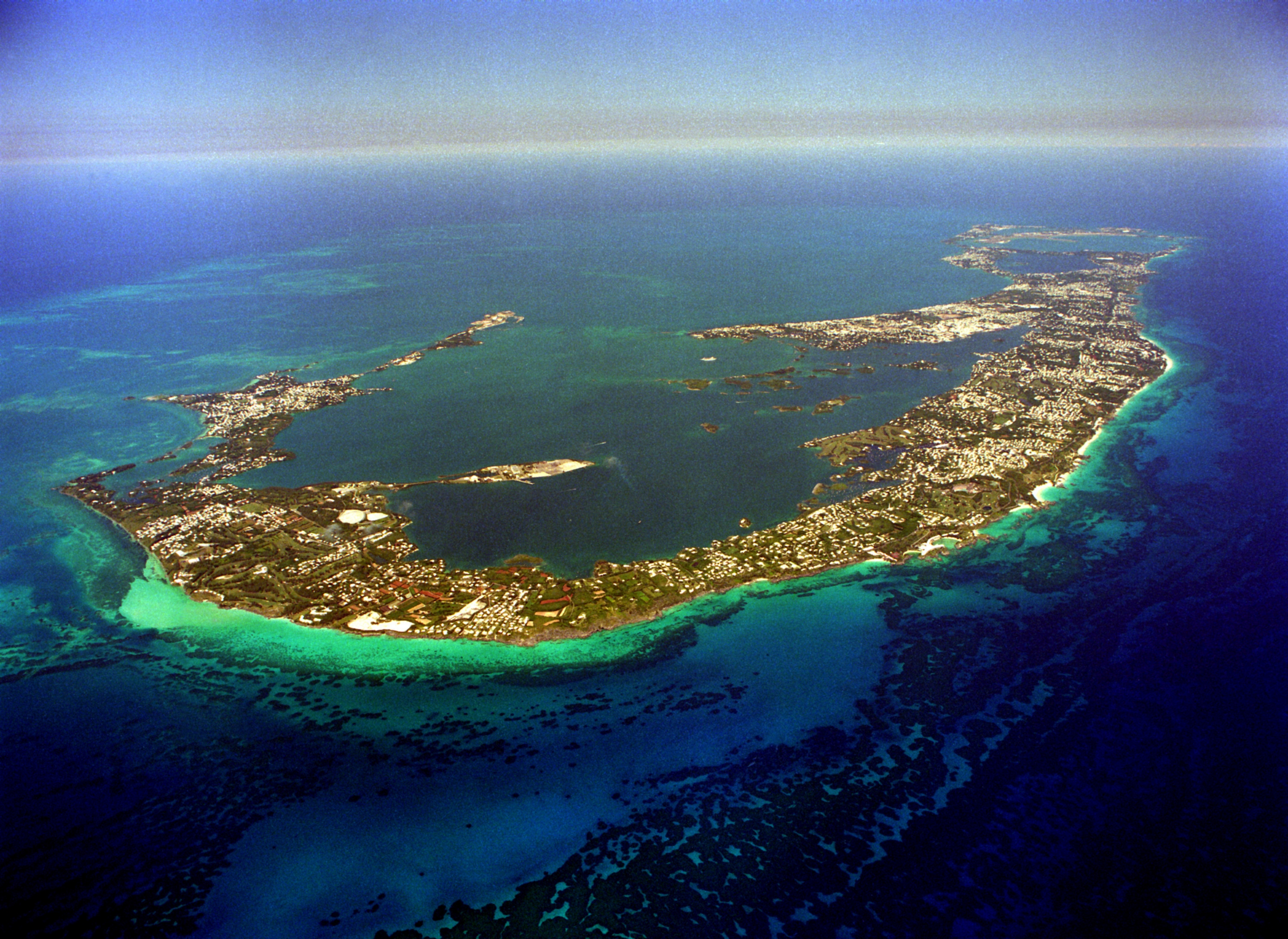 An aerial overall view of Bermuda.